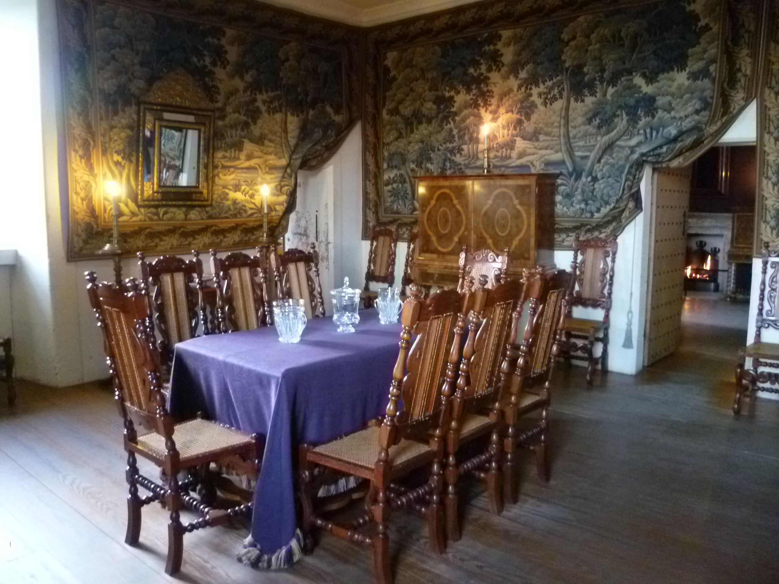 The Drawing Room, Argyll's Lodging, Stirling